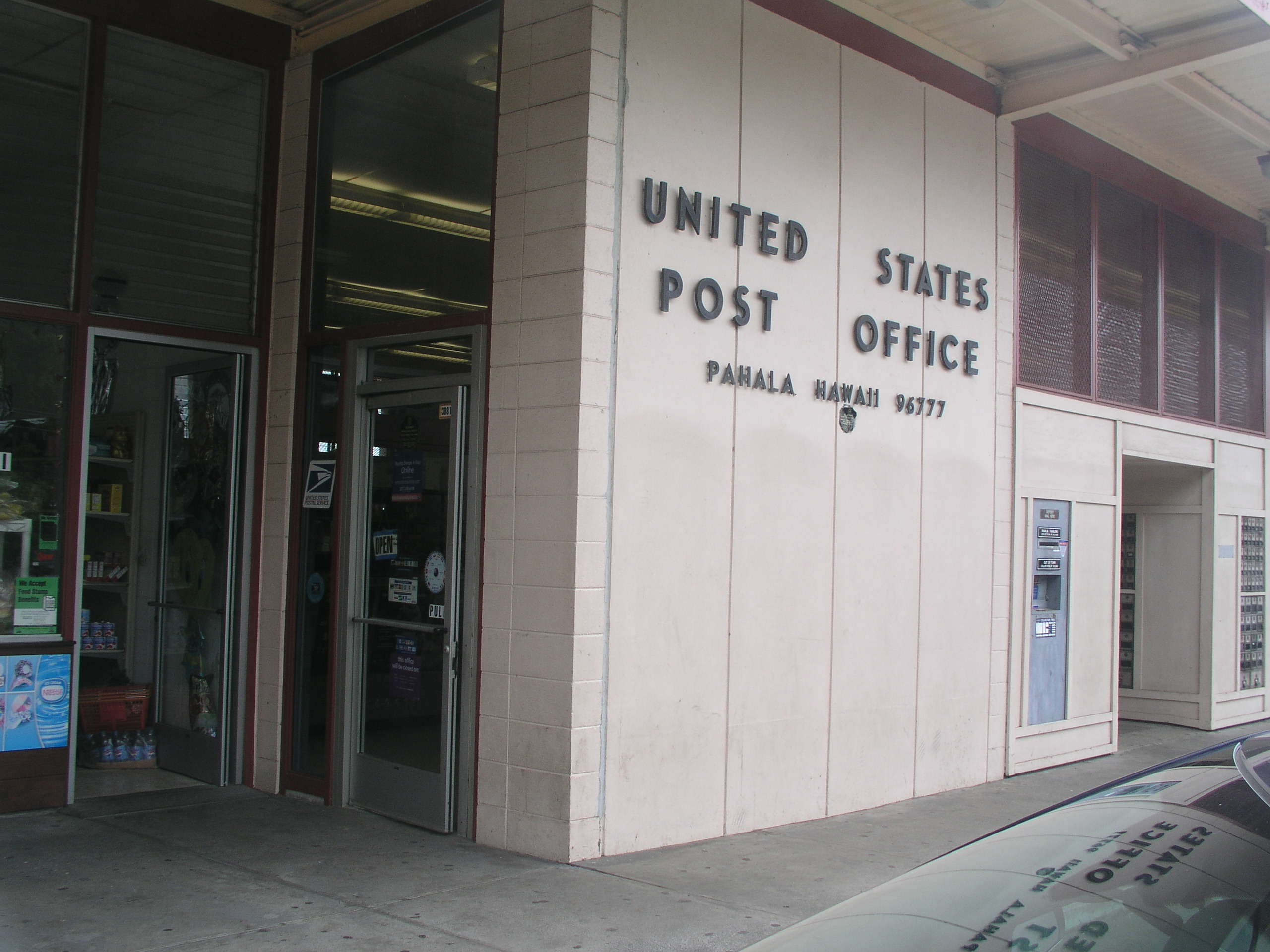 Post office in Pahala, Hawaii